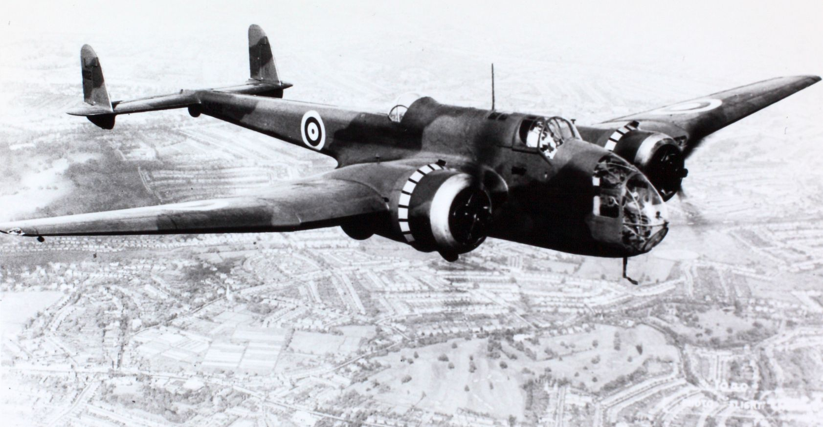 Image from the Charles Daniels Photo Collection album "British Aircraft." SOURCE INSTITUTION: San Diego Air and Space Museum Archive